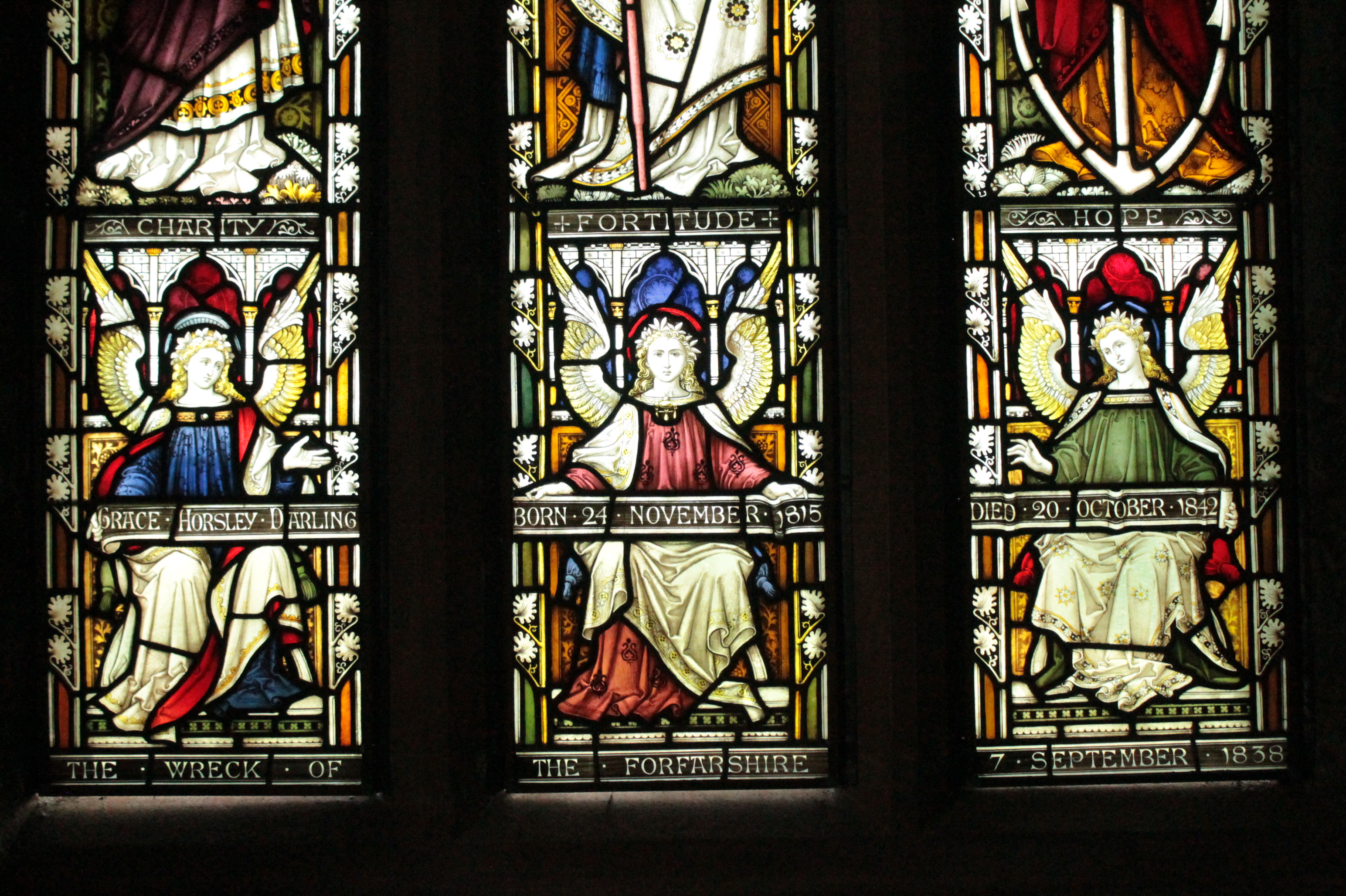 Memorial window to Grace Darling (detail) St Aidan's Church in Bamburgh